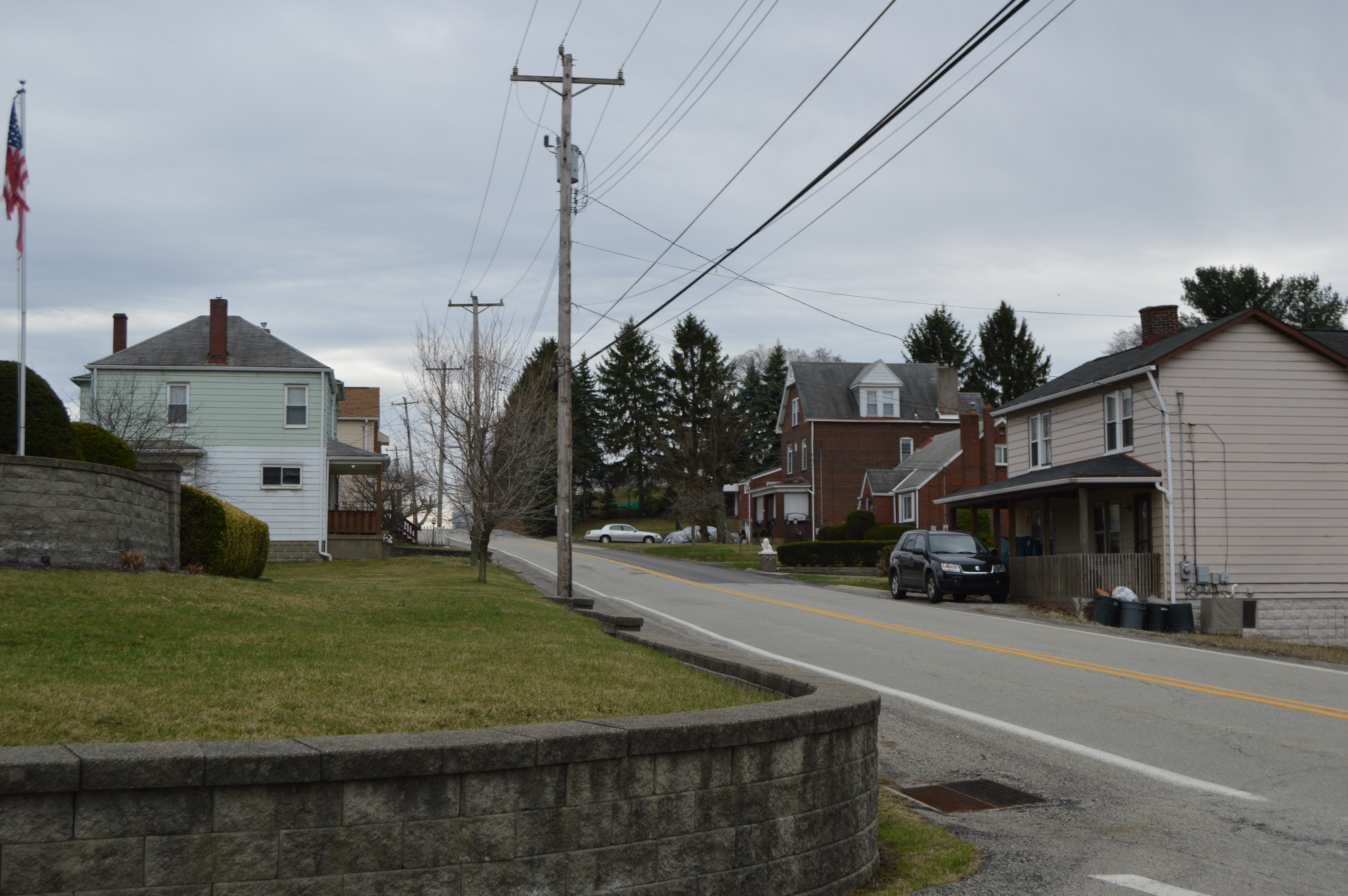 Looking south along Brinton Road from the Ridge Road intersection in Braddock Hills, Pennsylvania, United States.